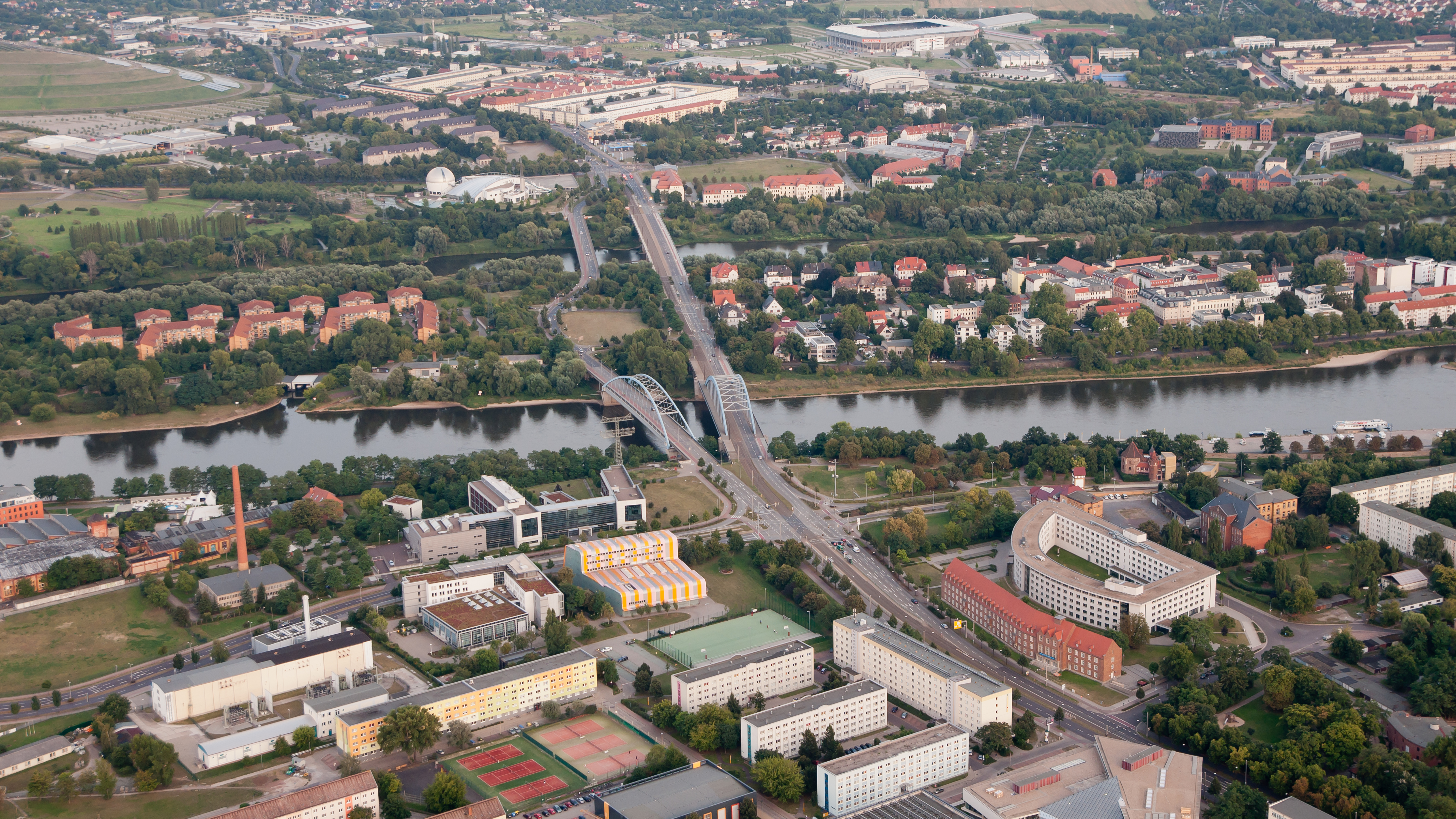 Aerial photograph of Werder and Jerusalembridges in Magdeburg